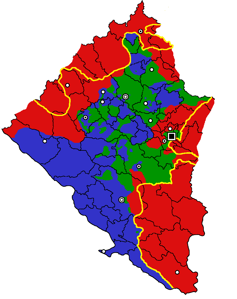 Begining of Bosniak-Croat war.